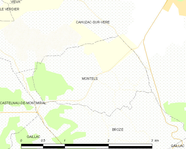 Map of French municipality Montels